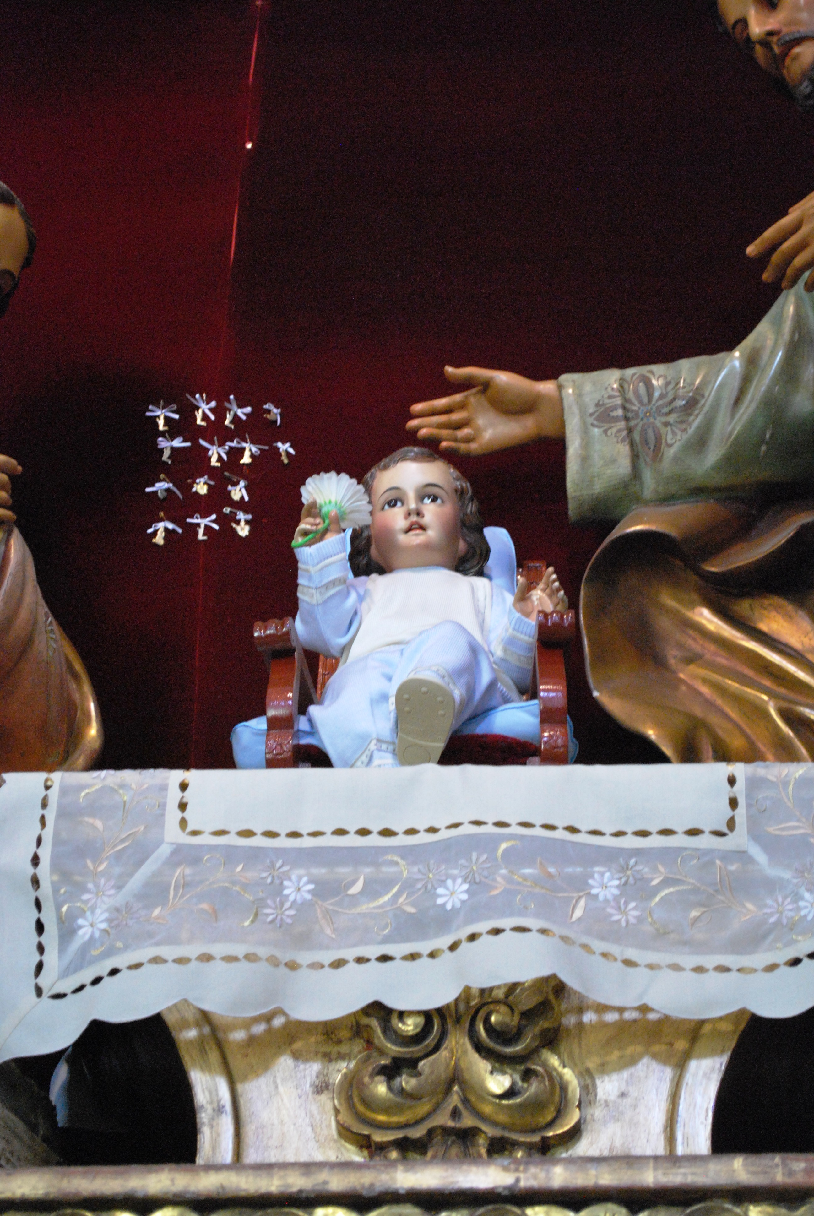 Close up of a Niño Jesus figure in his permanent altar at the San Bernadino de Siena Parish Church in Xochimilco, Mexico City